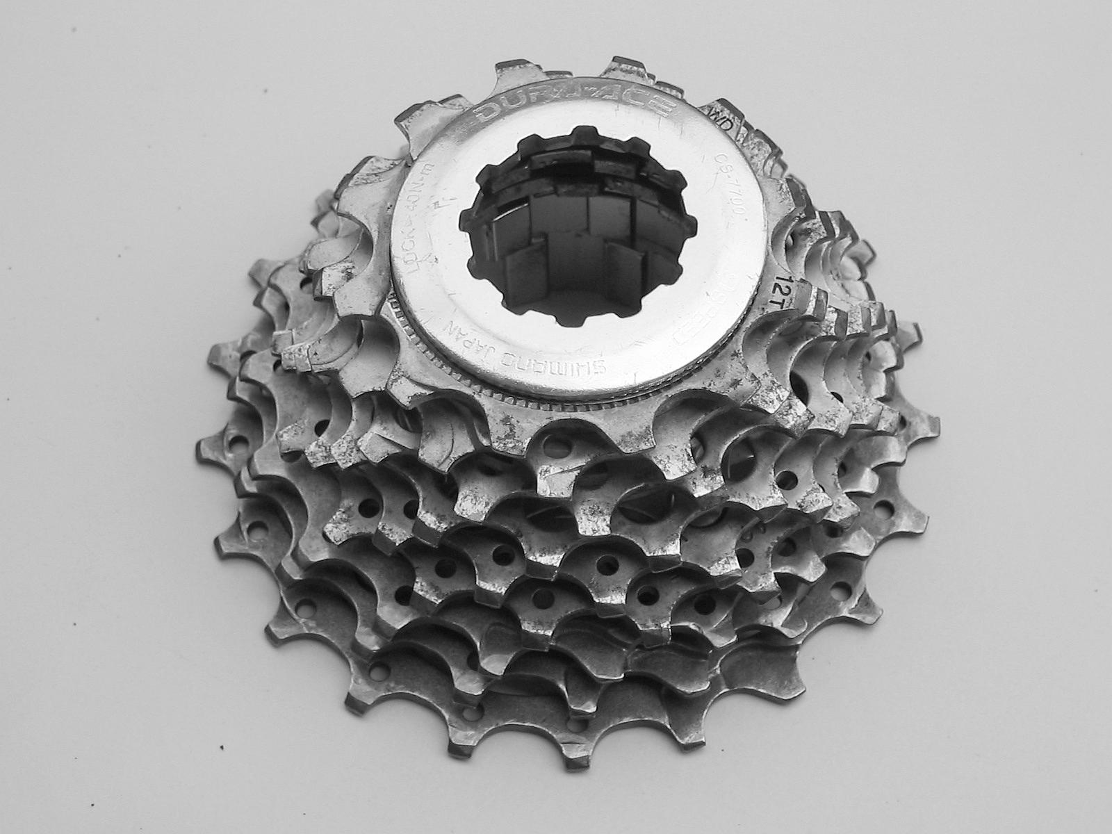 Shimano Dura-Ace road cassette.